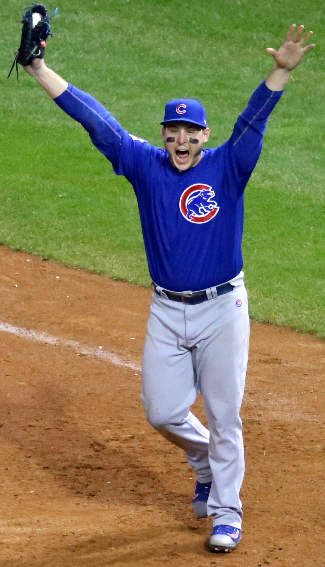 Cubs first baseman Anthony Rizzo celebrates the final out of the 2016 World Series.